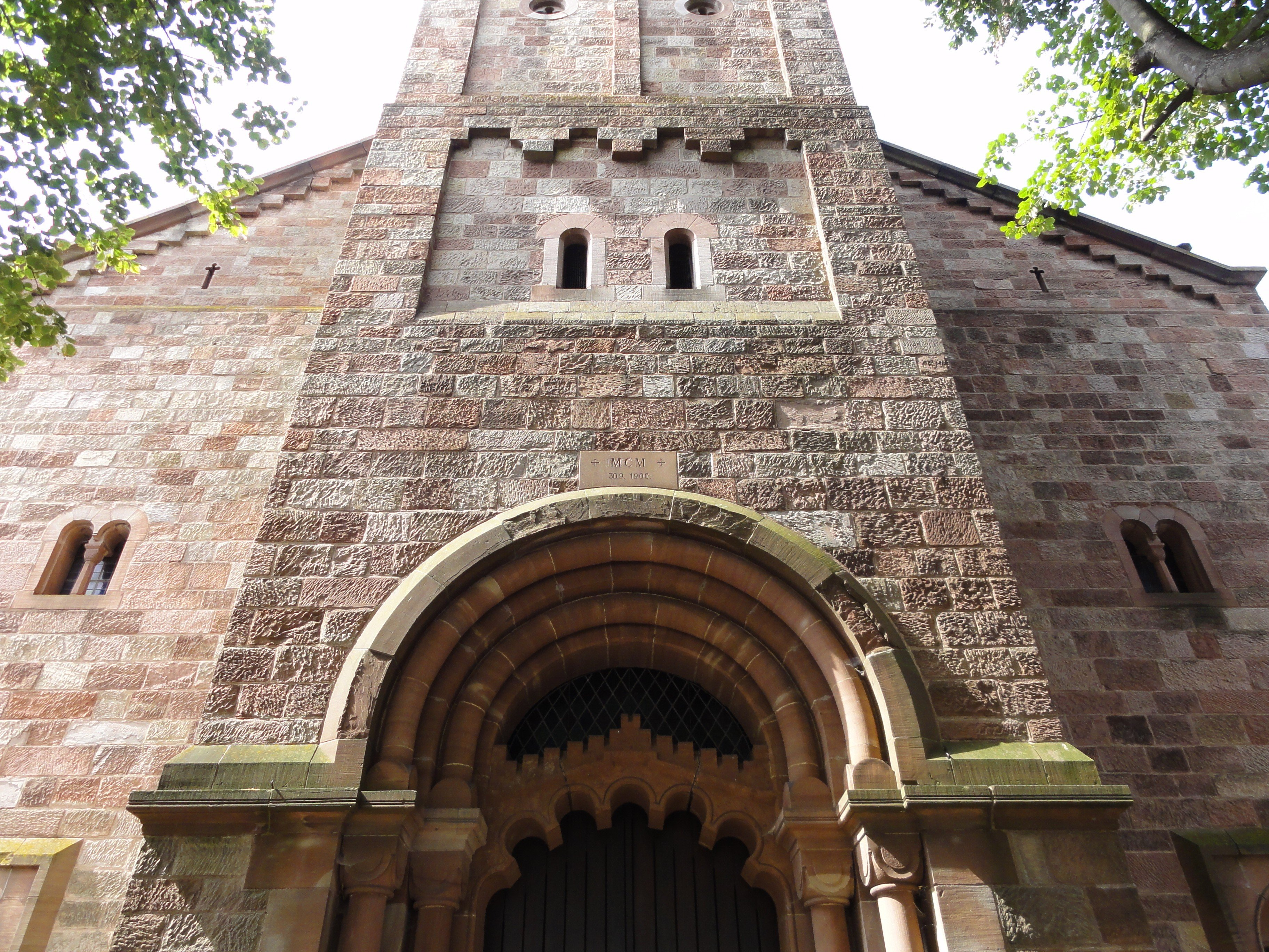 Alsace, Bas-Rhin, Lingolsheim, Église Saint-Jean-Baptiste